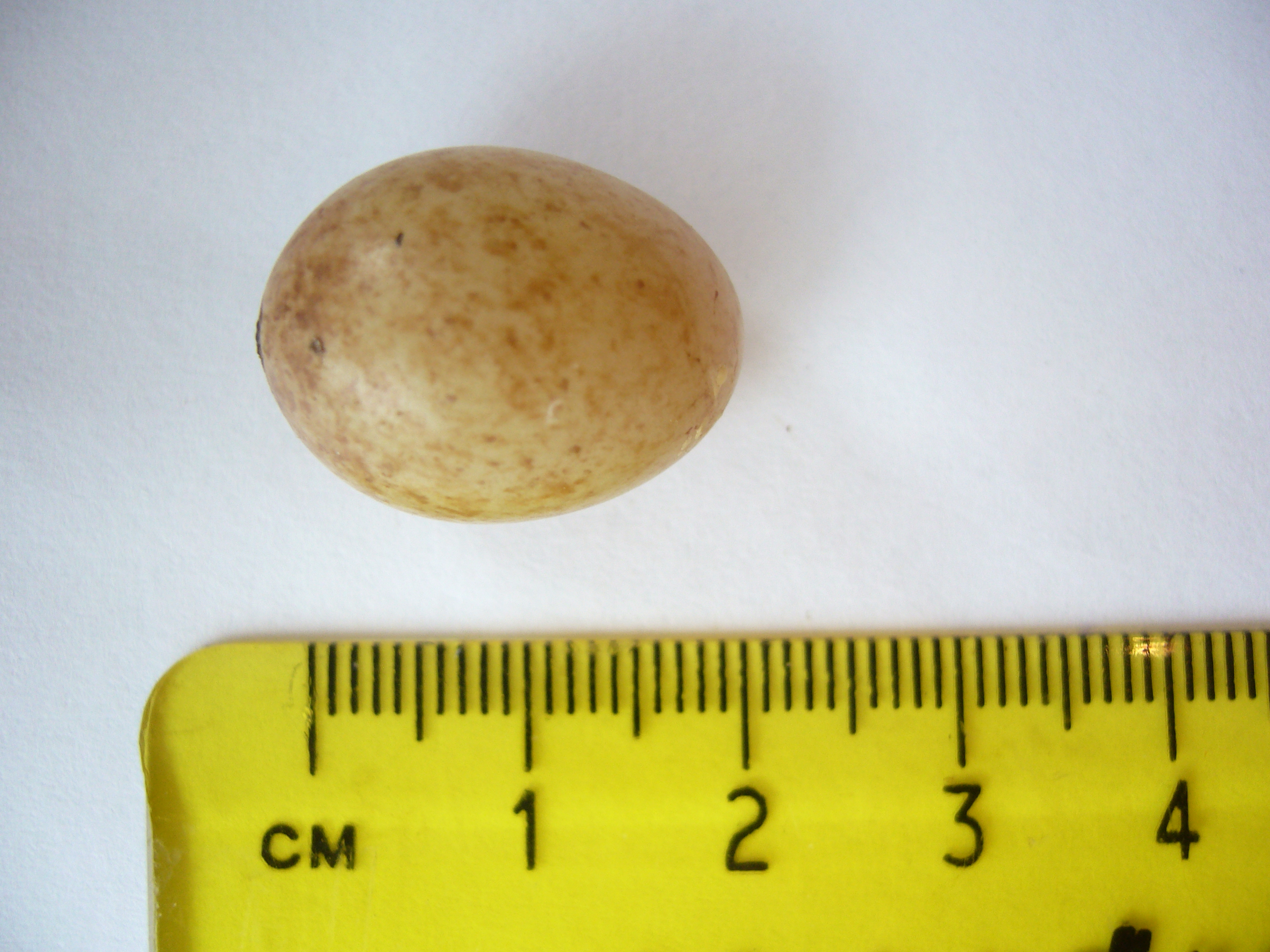 Egg of a European Robin. This cold, dead egg was found inside the nest after the birds had fledged.